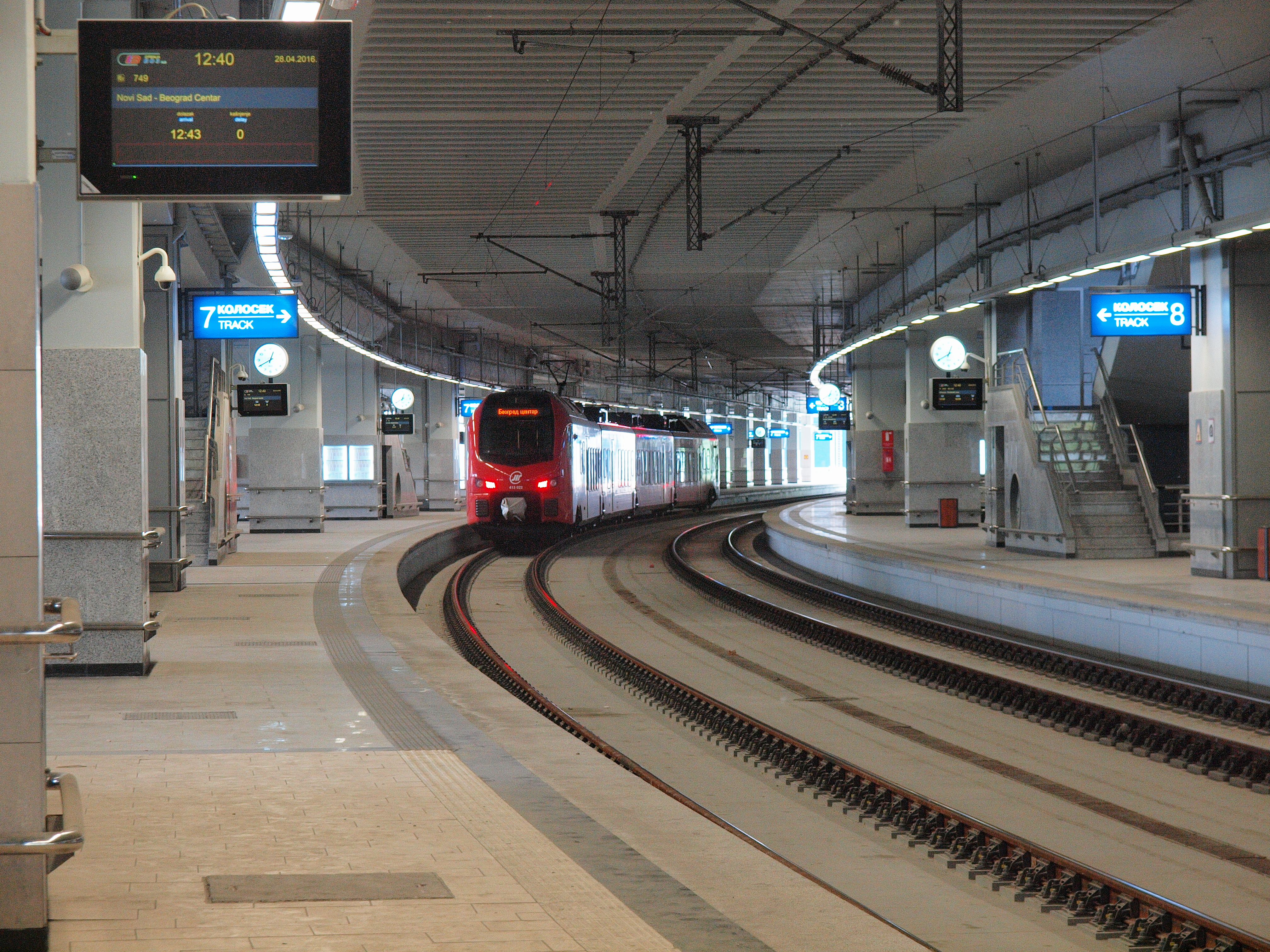 Prokop railway station